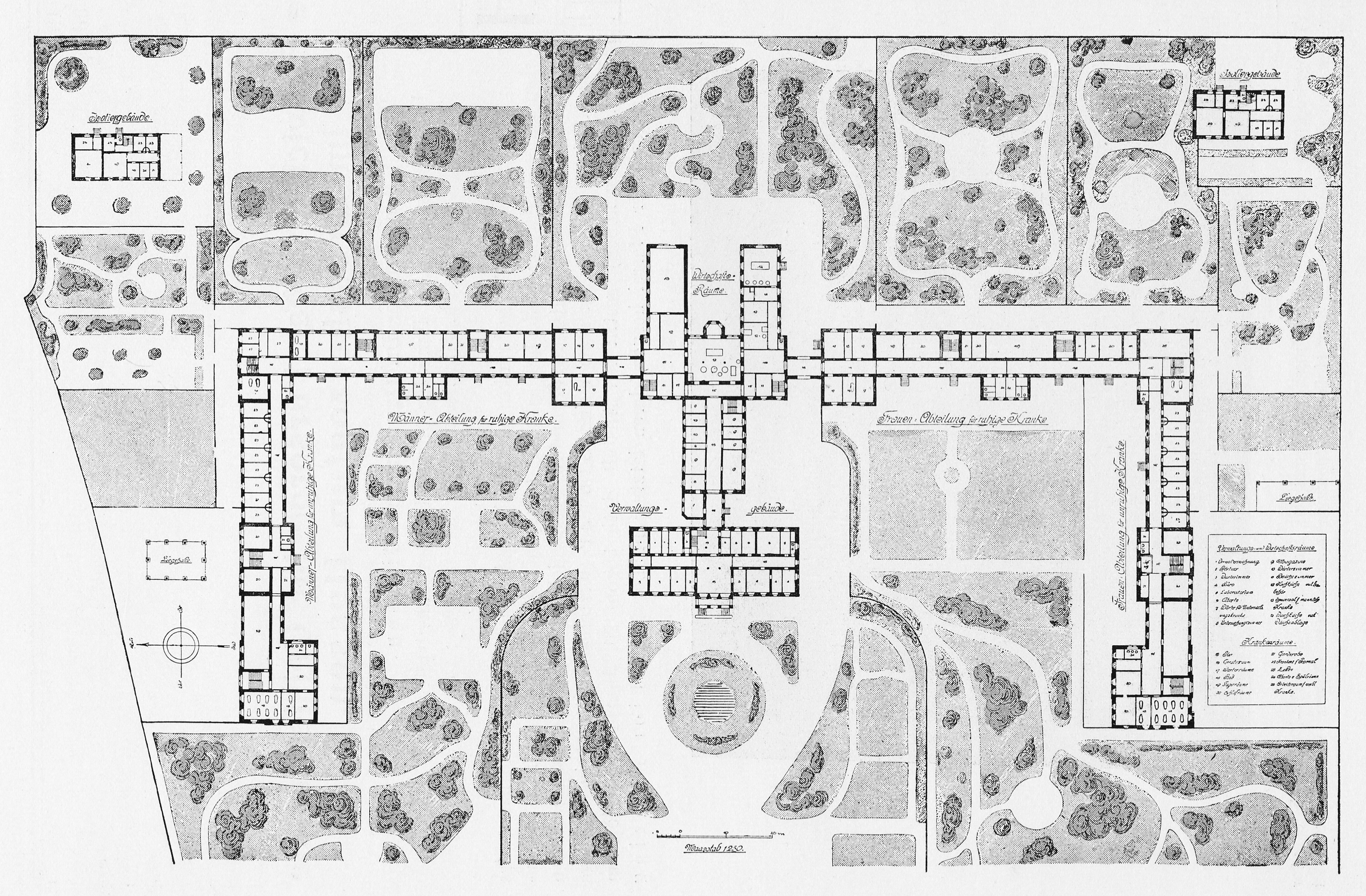 Master plan of the asylum near Heppenheim/Bergstraße.